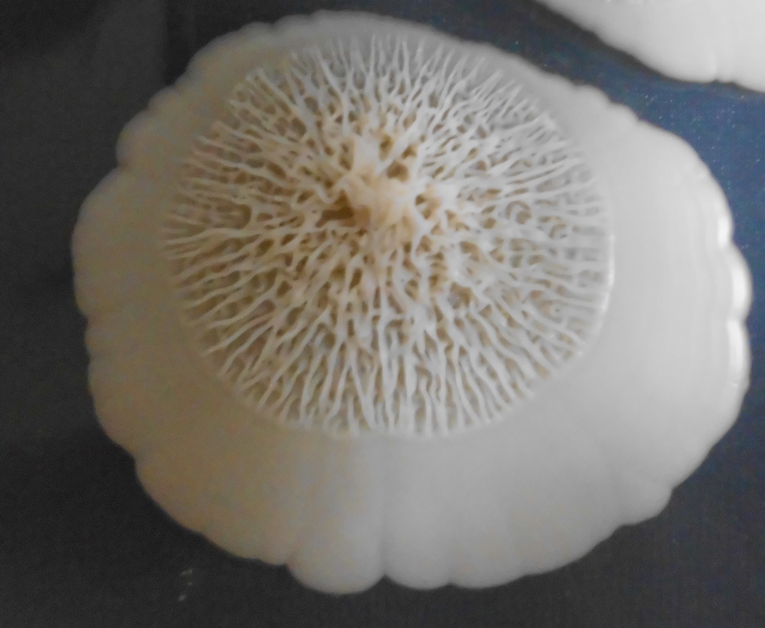 Smooth colony of Candida albicans, with on top wrinkled candida albicans